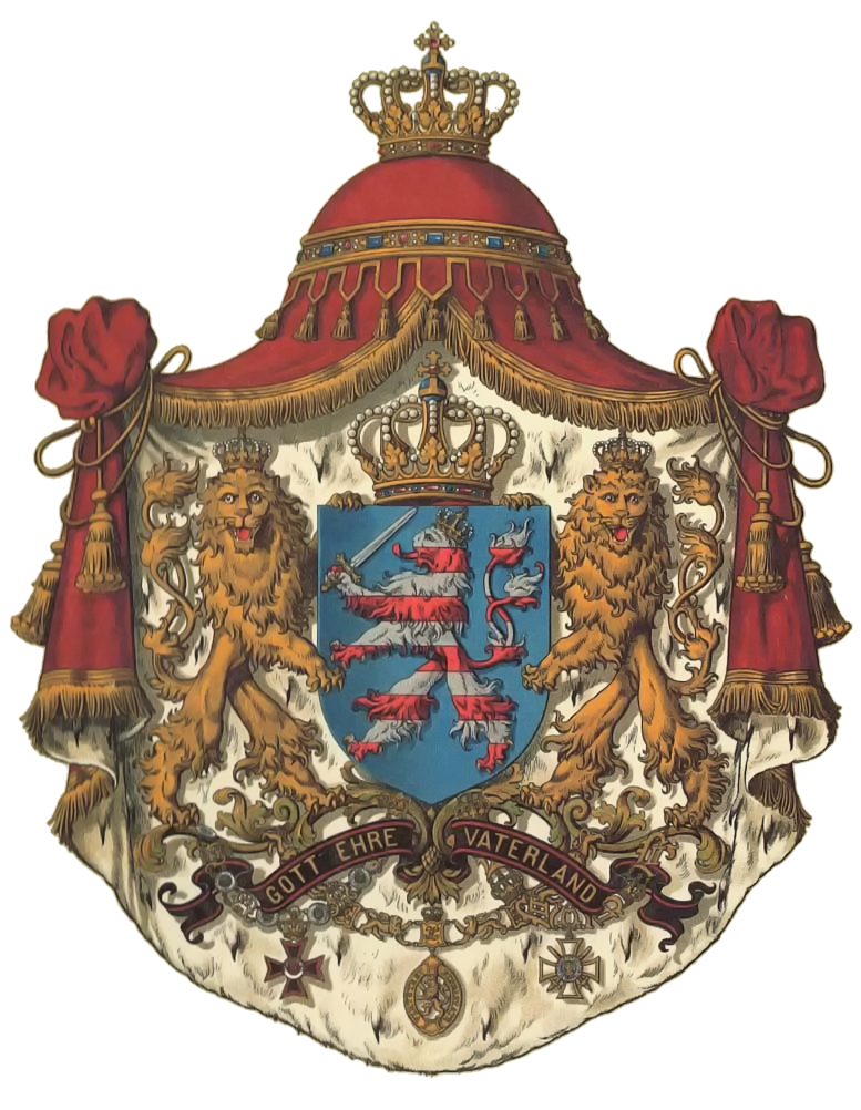 Great majesty crest of the Grand Duchy of Hesse